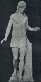 Statue of a girl victor of the Hearaean Games, apparently near the start of a race. A copy of a fifth-century original, and located at the Vatican. The original image which was scanned (and which I have slightly increased the contrast of using software) can be located in: Gardiner, E. Norman (1864-1930), Greek Athletic Sports and Festivals, London: MacMillan, 1910, p. 49, Fig. 6